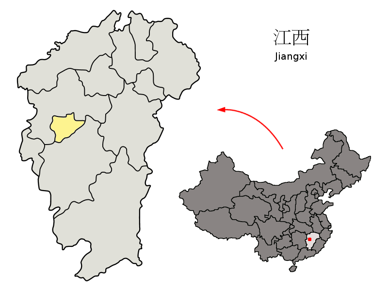 Location of Xinyu Prefecture (yellow) within Jiangxi Province of China Map drawn in december 2007 using various sources, mainly : Jiangxi Province administrative regions GIS data: 1:1M, County level, 1990 Jiangxi Counties map from